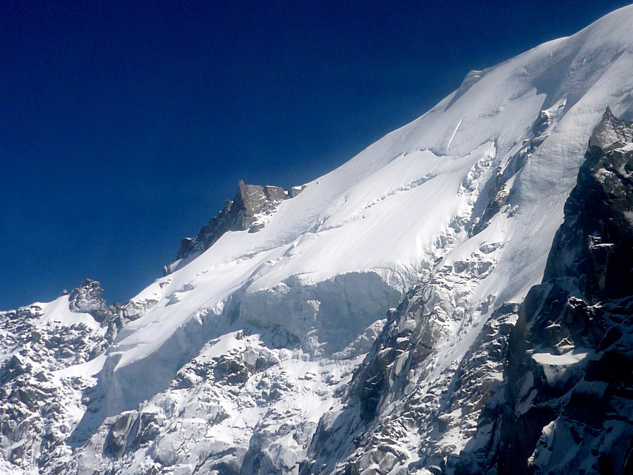 Pèlerins Glacier, Chamonix-Mont-Blanc, Haute-Savoie, France